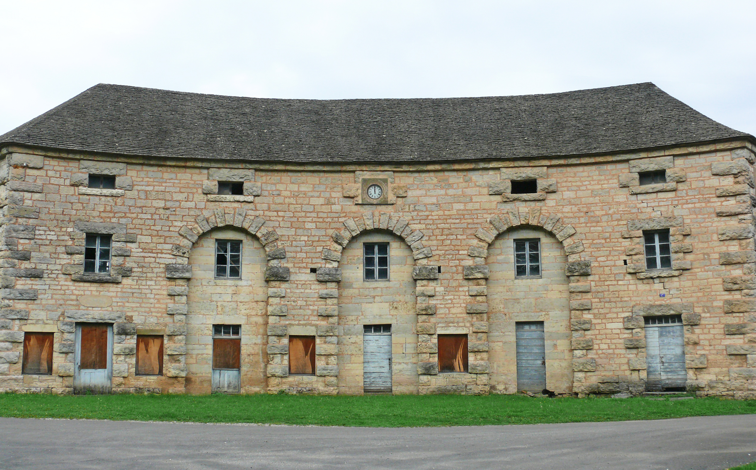 General view of the main building of the forge in Baignes (Haute-Saône, France)